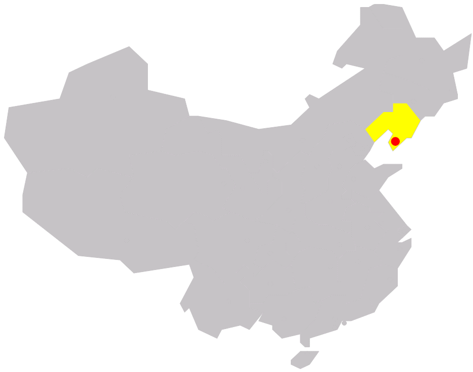 position of Dalian in China